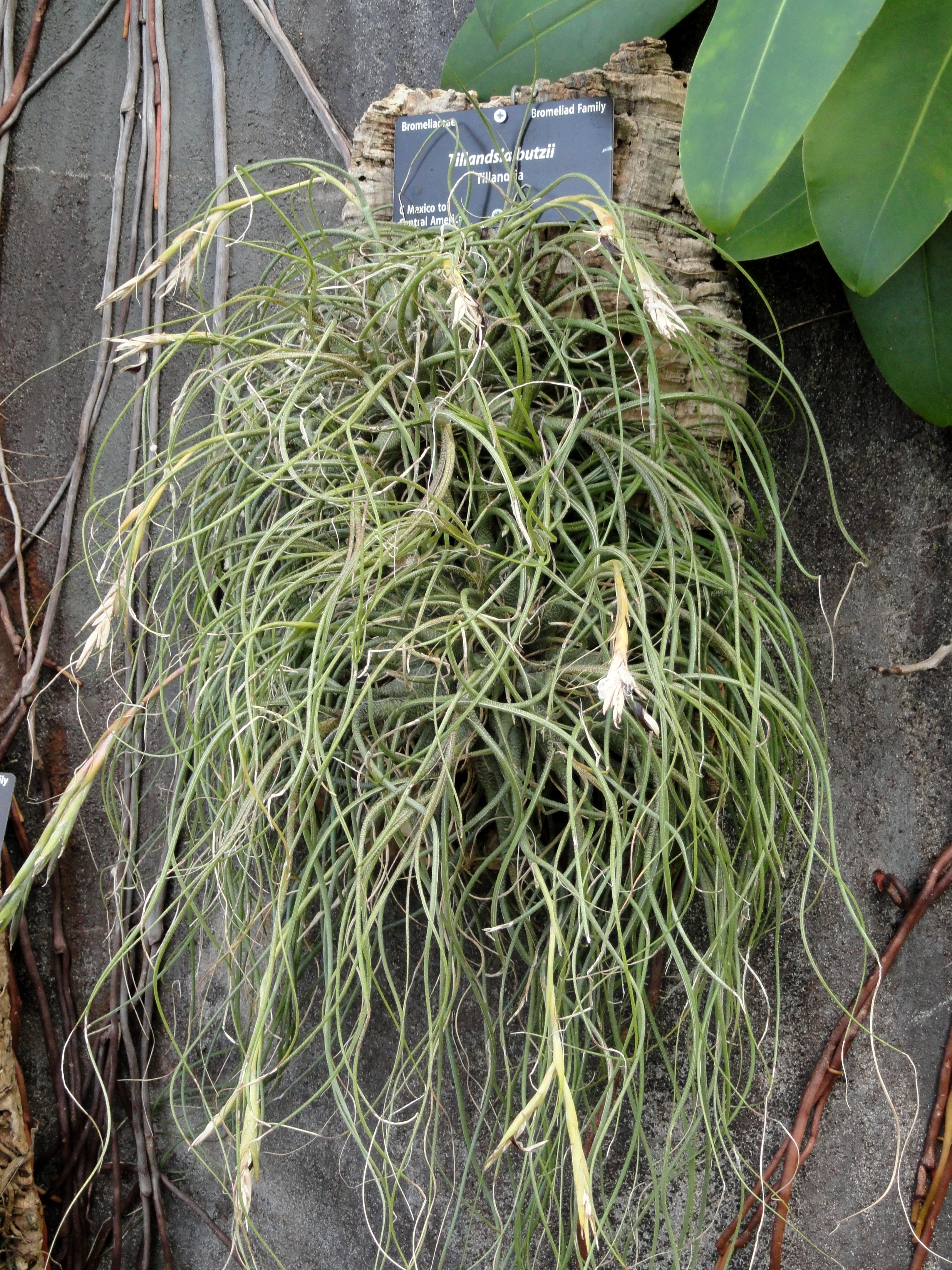 Tillandsia butzii. Botanical specimen in the Denver Botanic Gardens, 1007 York Street, Denver, Colorado, USA.